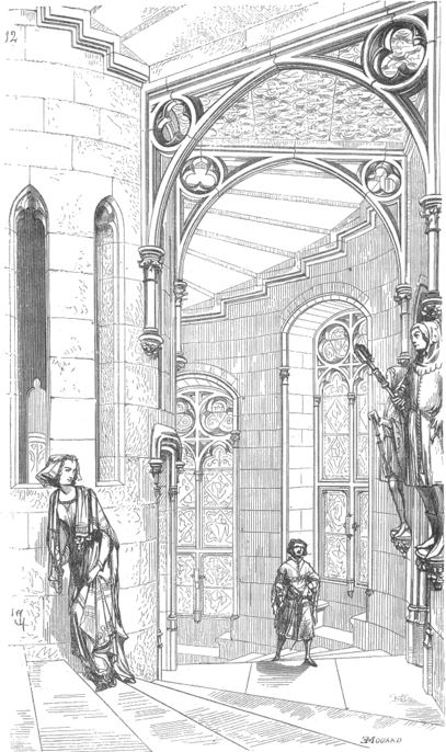 Perspective view of the grande vis imagined by Viollet-le-Duc. Dictionnaire raisonné de l’architecture française du XIe au XVIe siècle.